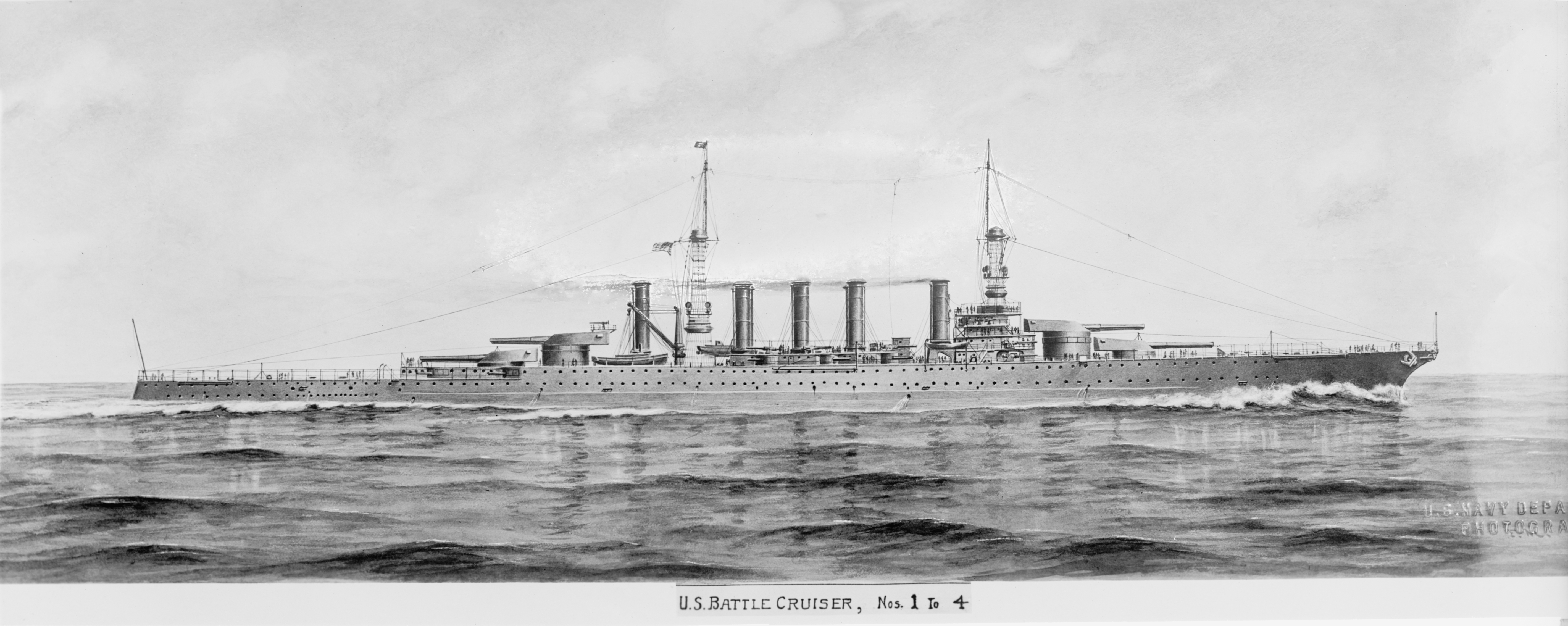 "Artwork by F. Muller, circa 1916, depicting the original design adopted for these ships."